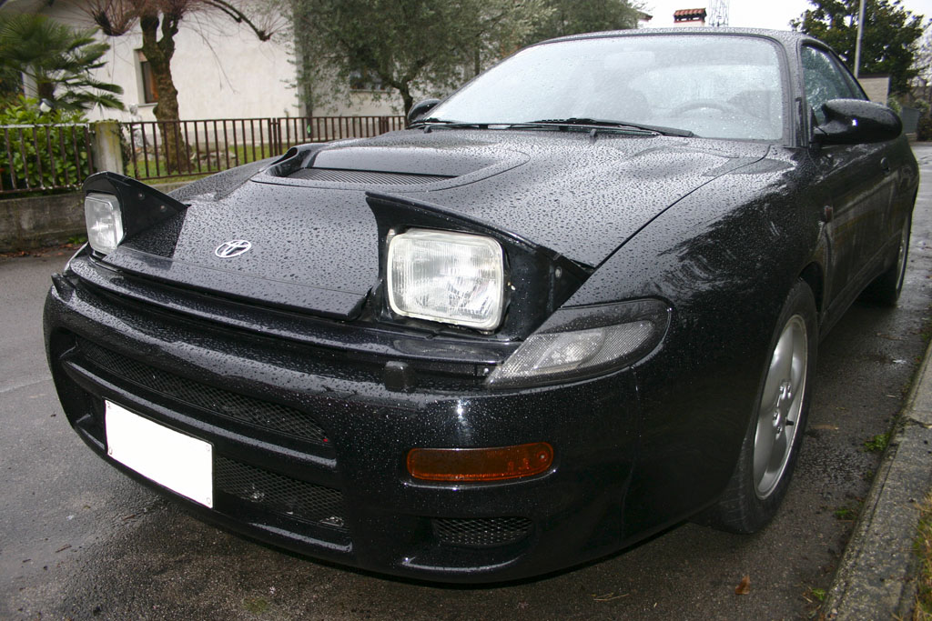 Toyota Celica GT-Four RC Carlos Sainz Limited Edition (ST185L-BLMQZG) shown in Black (colour code 202).